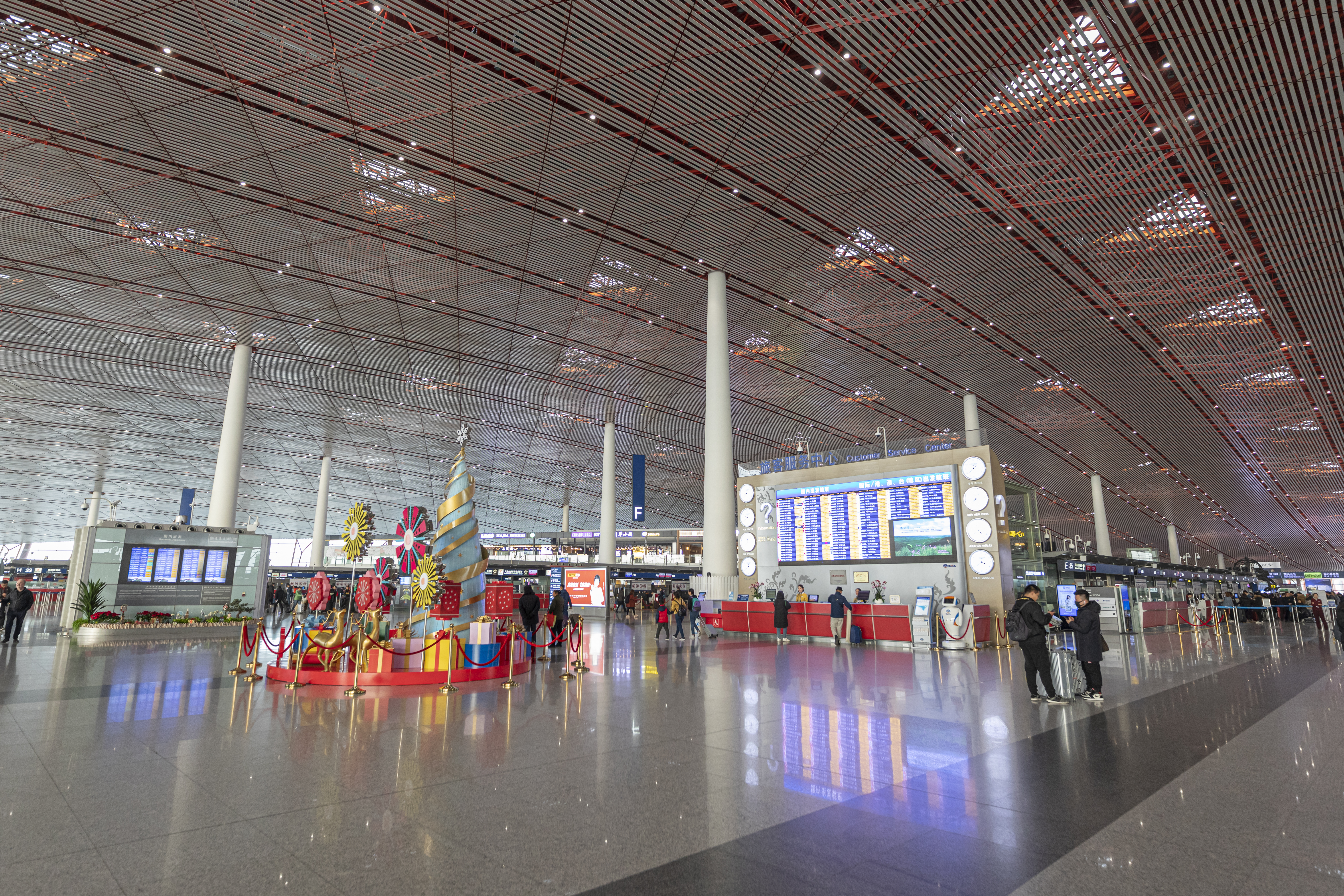 Terminal 3 of Beijing Capital Airport